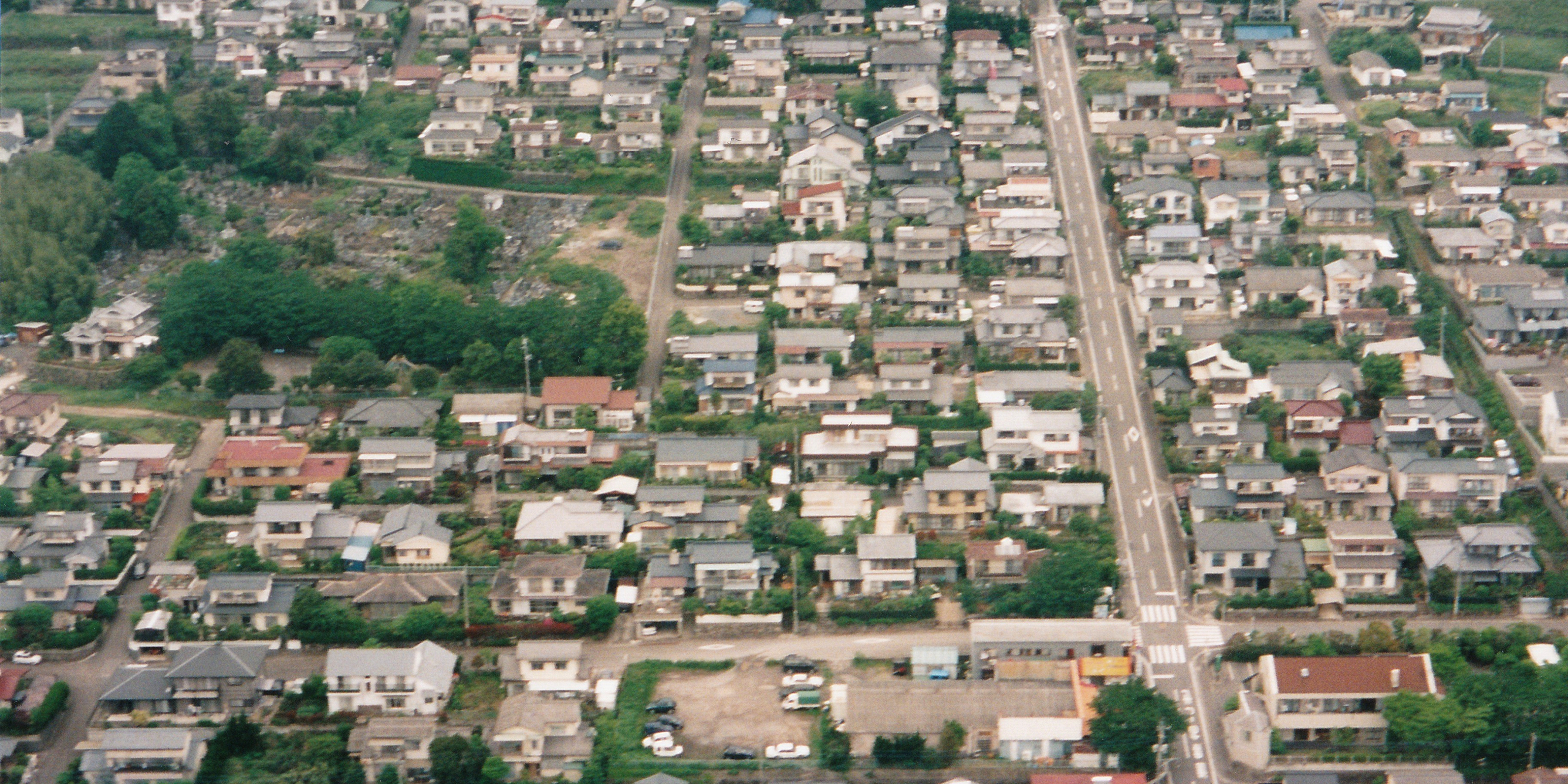 Hiji-Town Tsujima housing complex 199805